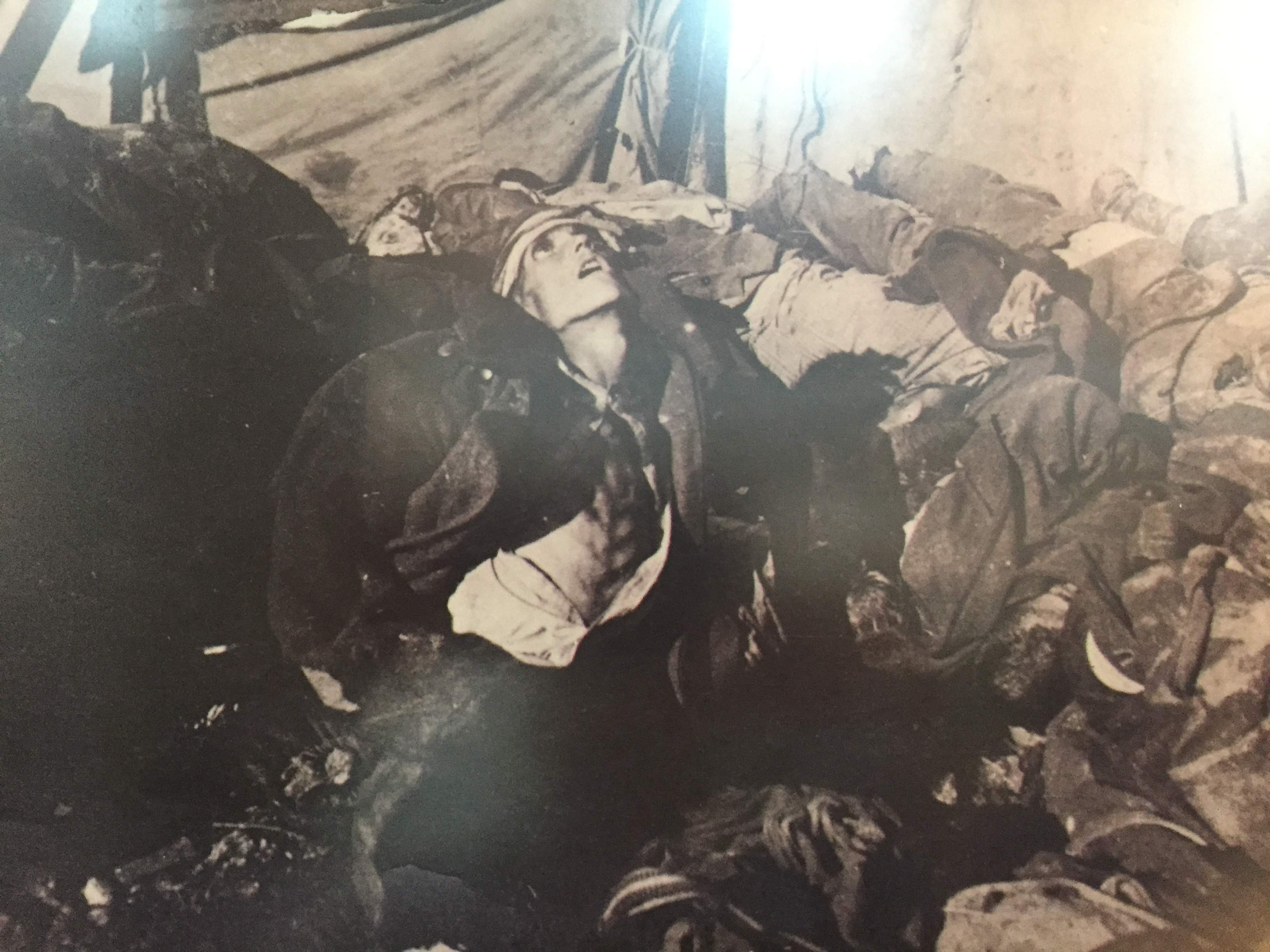 Serbian soldier on the dying, Island of Vido, Greece, First conscious war